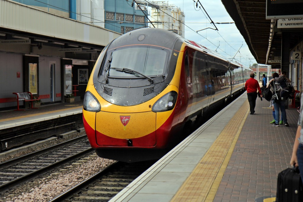 Virgin Class 390, 390010 "A Decade of Progress", Warrington Bank Quay railway station